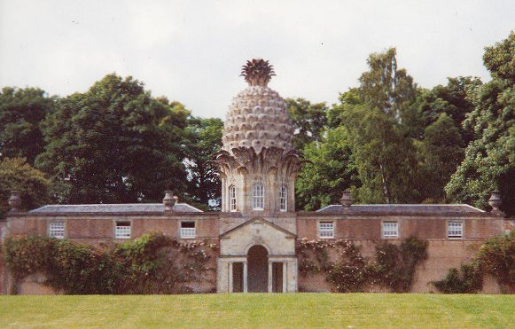 The Pineapple, Dunmore Park.